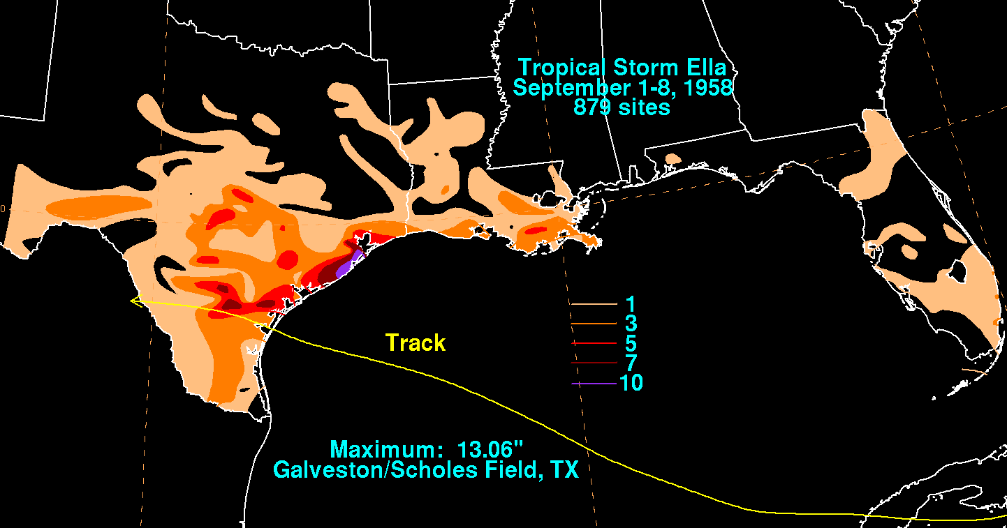 Storm total rainfall map of Hurricane Ella during September 1958.